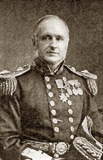 Admiral Sir Richard Vesey Hamilton